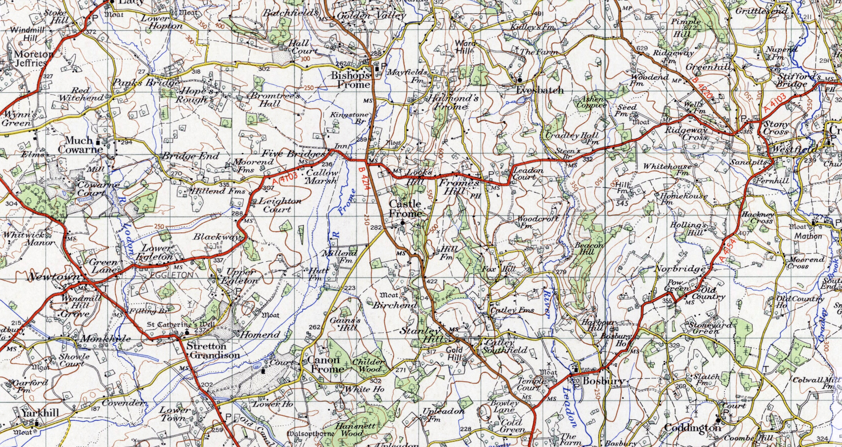 1960 published Ordnance Survey map of Castle Frome, Herefordshire, England. Detail from the OS One-inch to the mile, 7th series, 1952-1961, Sheet 143, Gloucester and Malvern. Reproduced with the permission of the National Library of Scotland.[1].